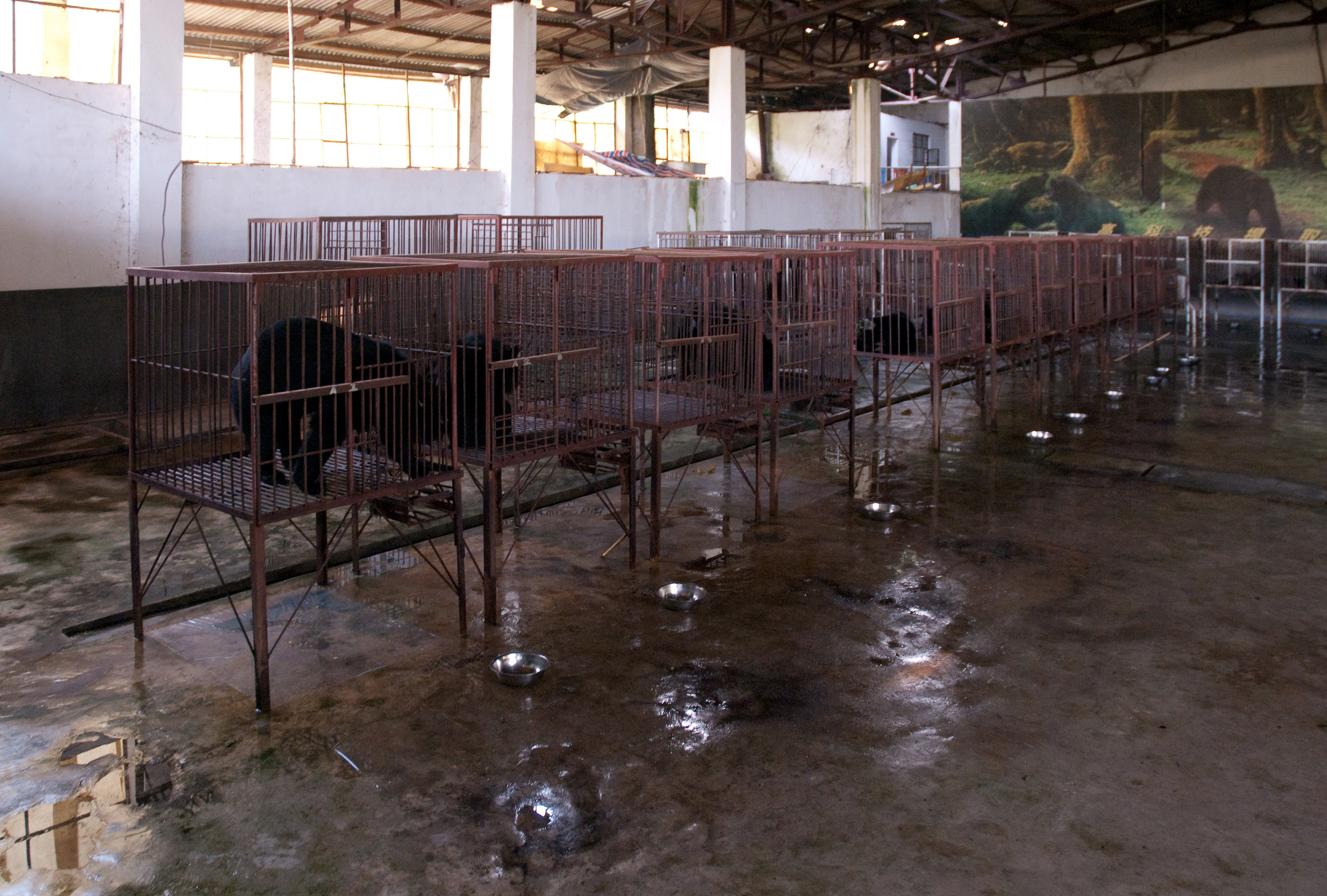 Sun Bear Bile Extraction Operation in Möng La, Shan, Myanmar